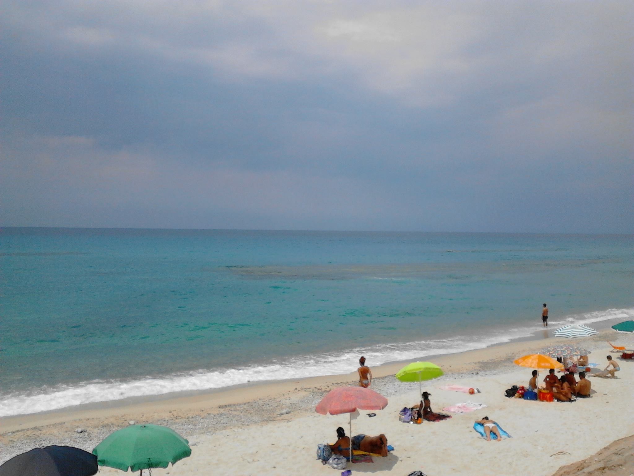 Beach in Zambrone ITALY